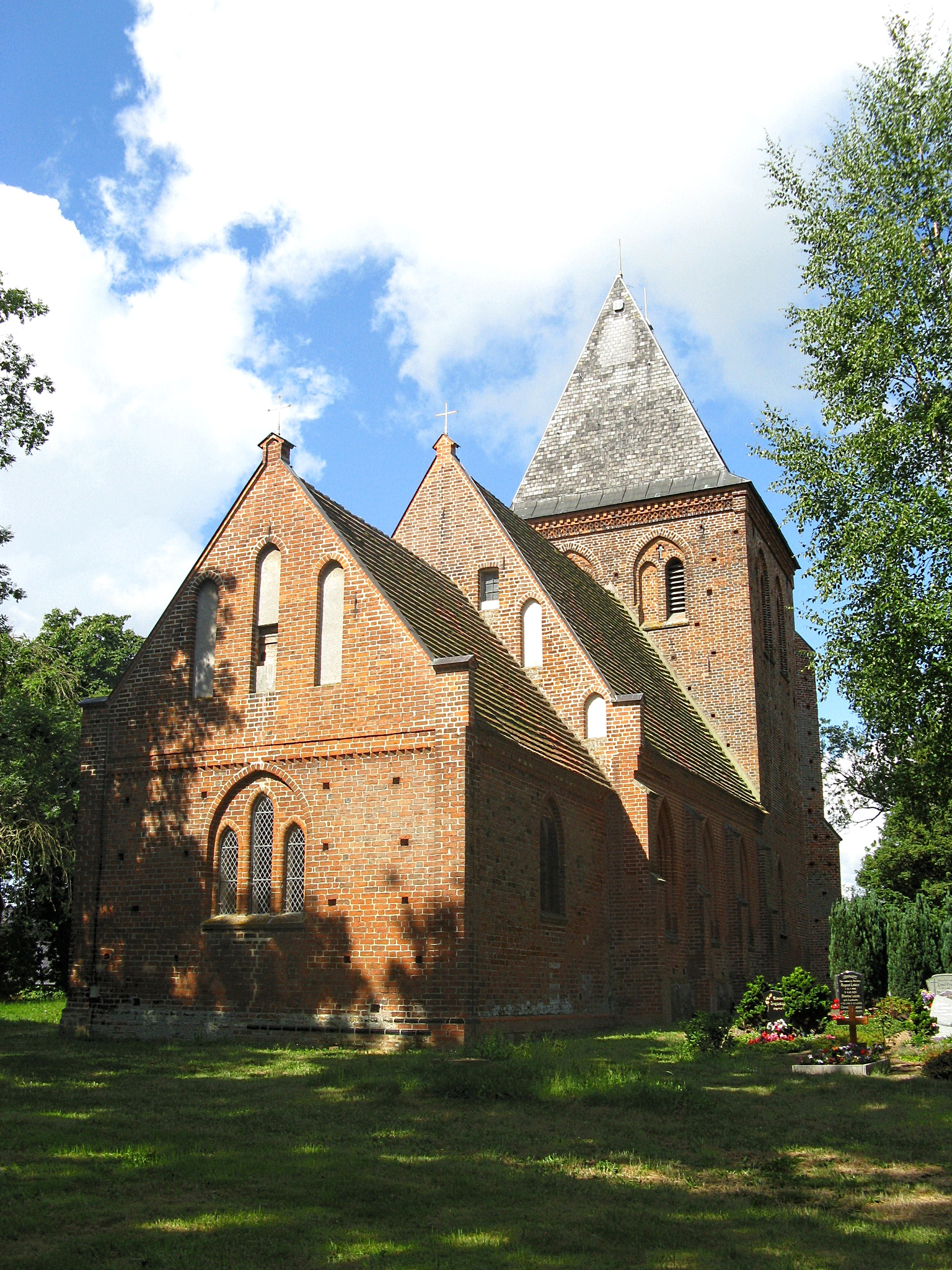 Church in Kirch Stück, Mecklenburg-Vorpommern, Germany